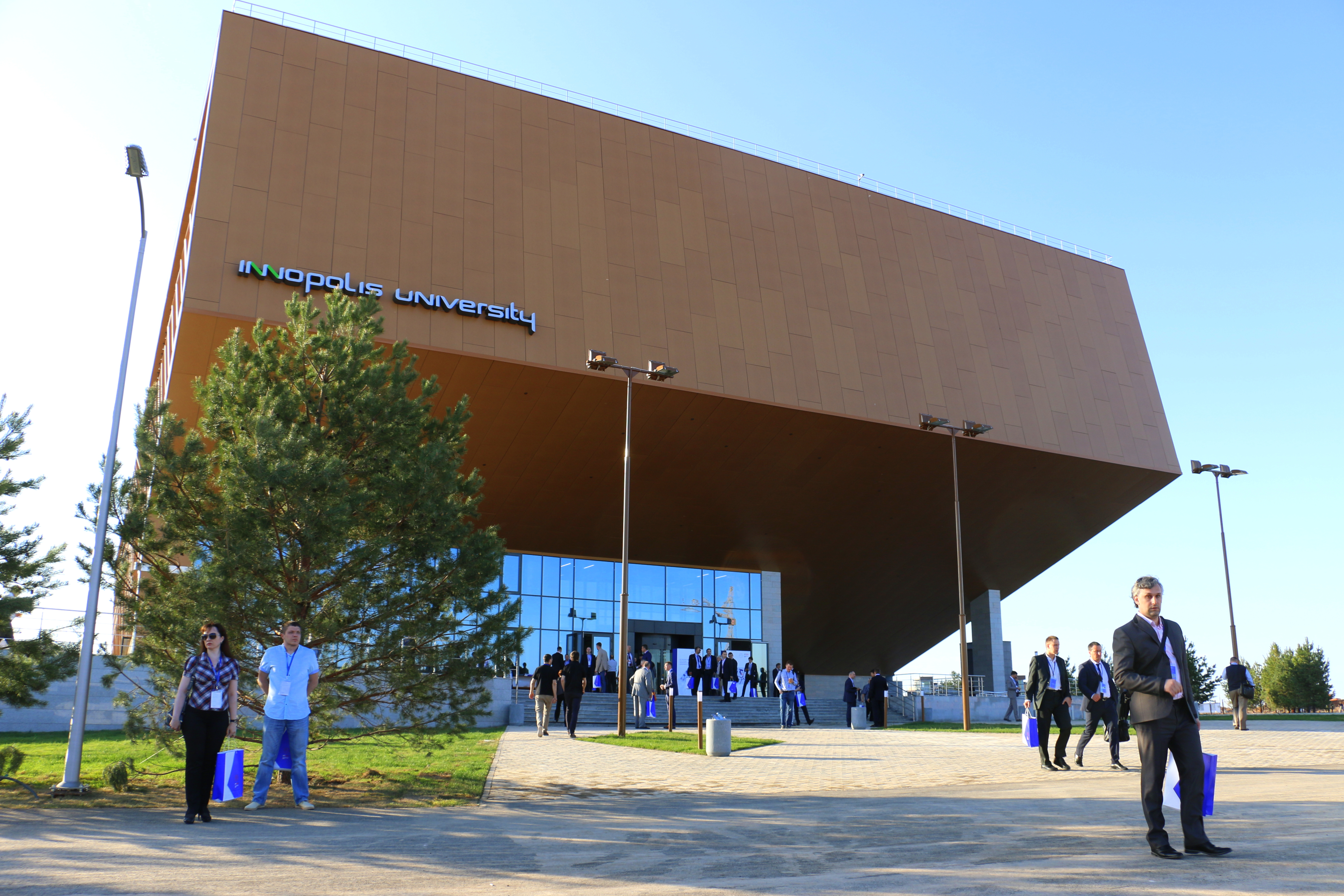 Innopolis University